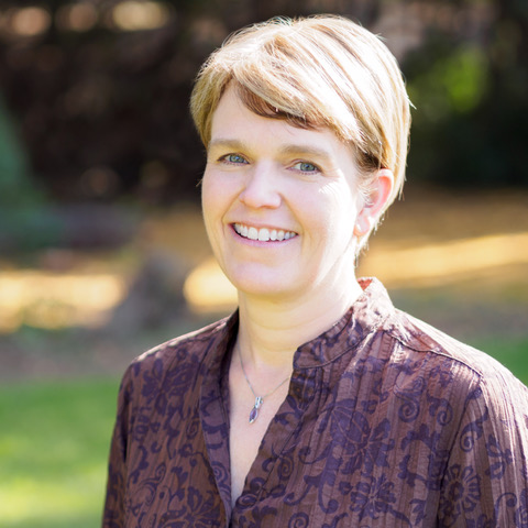 Dr. Rebecca Heald, Prof. at the Univ. of Calif. Berkeley, Jan2015